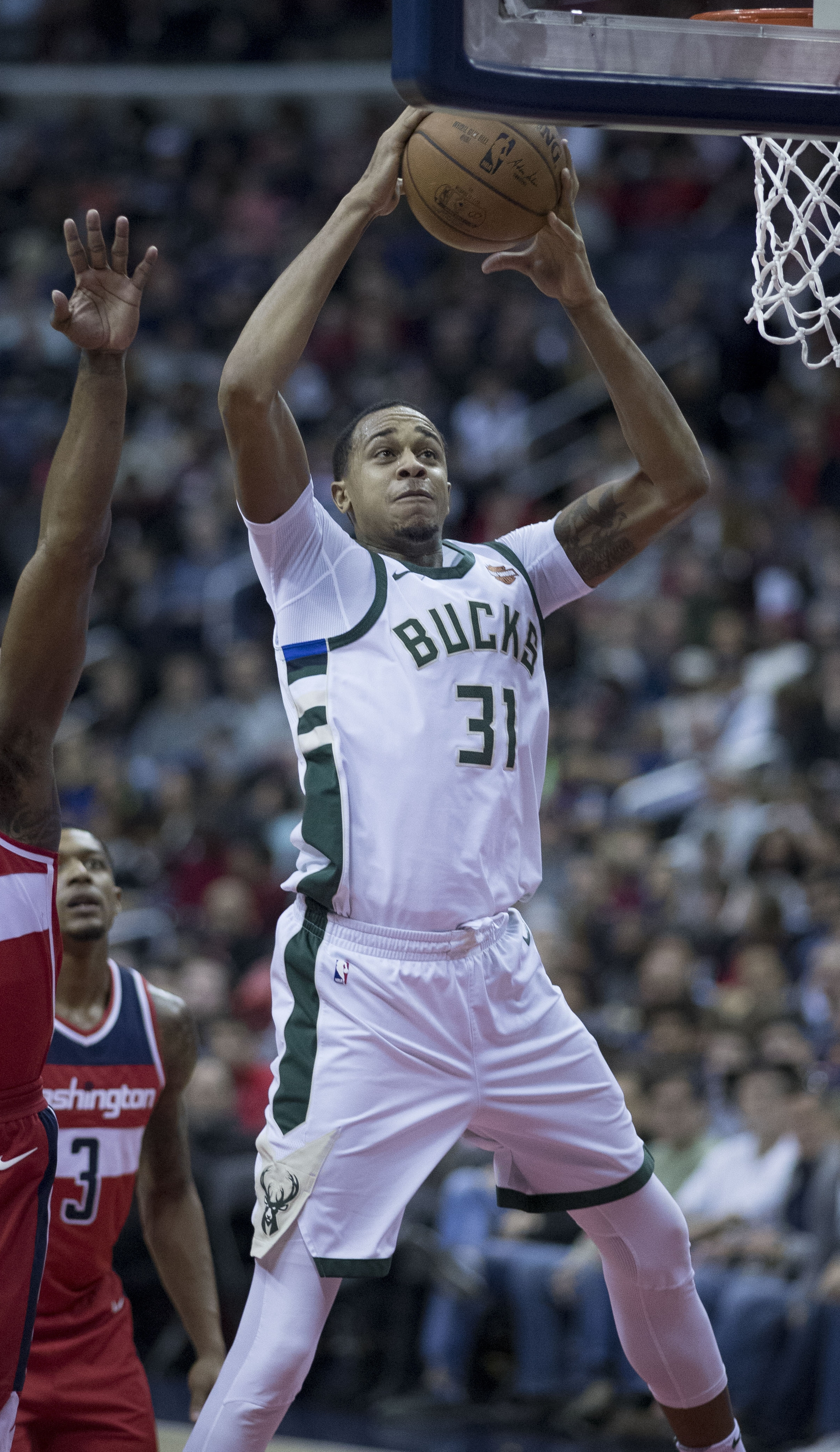 John Henson of the Milwaukee Bucks during the game against the Washington Wizards on January 15, 2018 at Capital One Arena in Washington, DC.